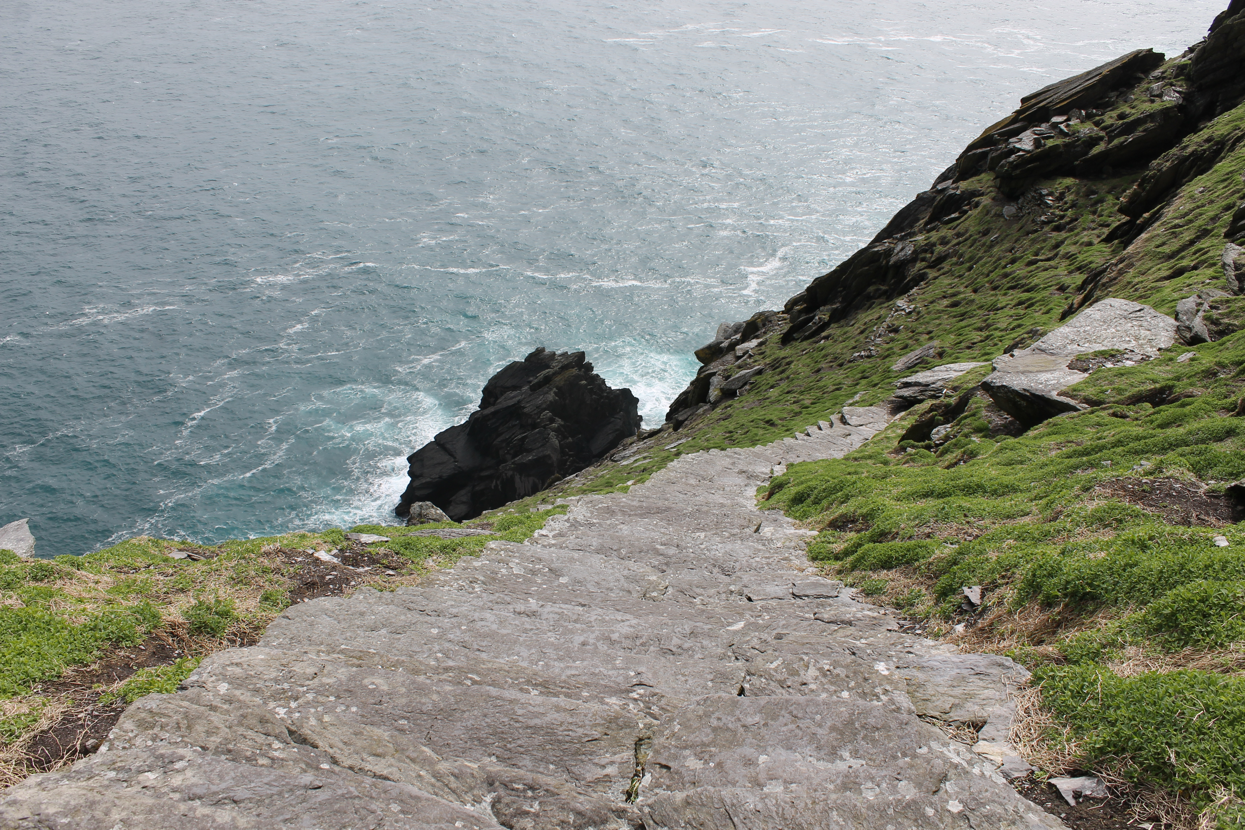 Stairs to the top of the Skellig Micheal